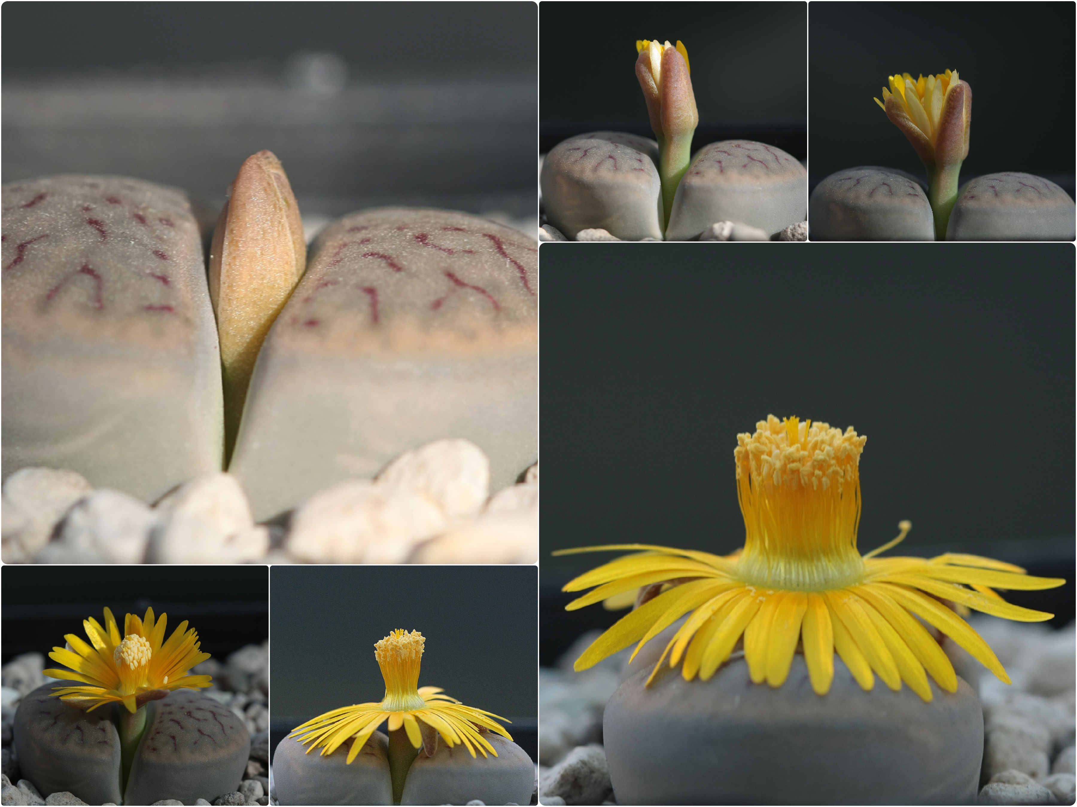 Collage Lithops schwantesii